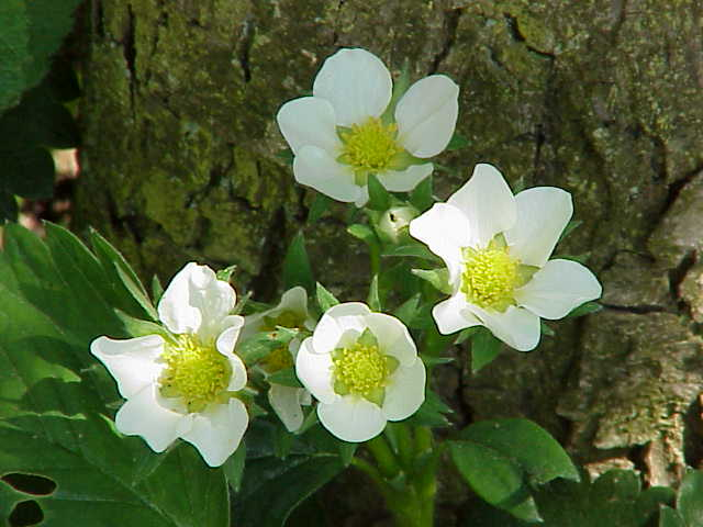 Species: Fragaria vesca Family: Rosaceae Image No. 1